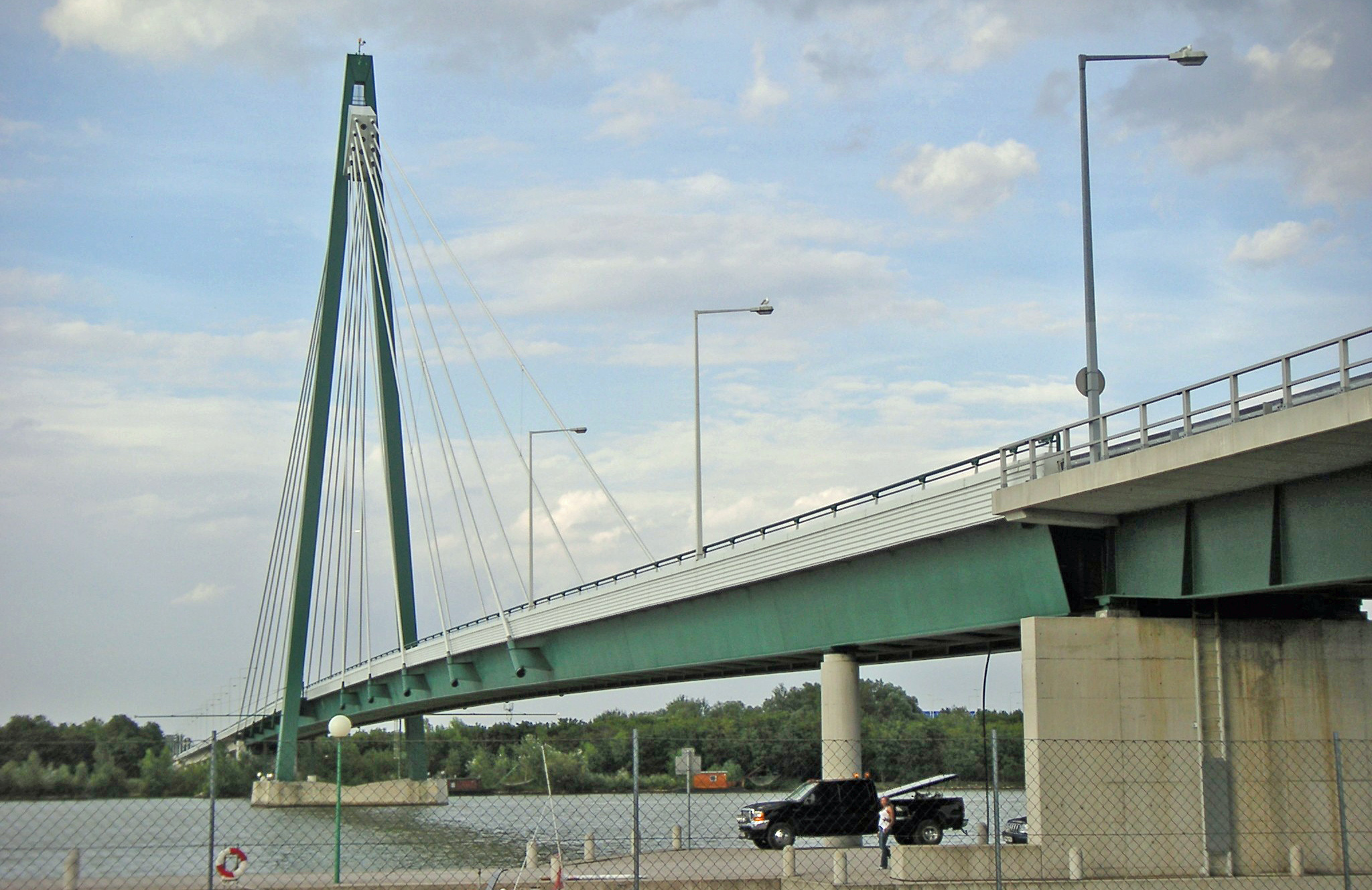 Donaustadtbrücke in Vienna, Austria